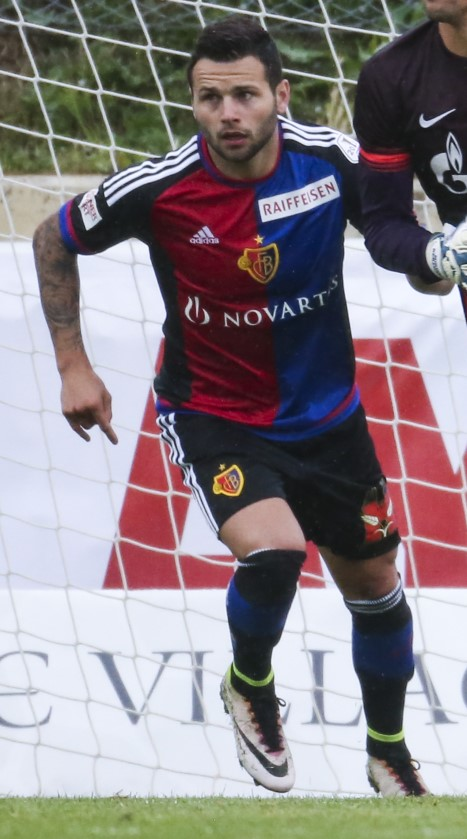 Renato Steffen